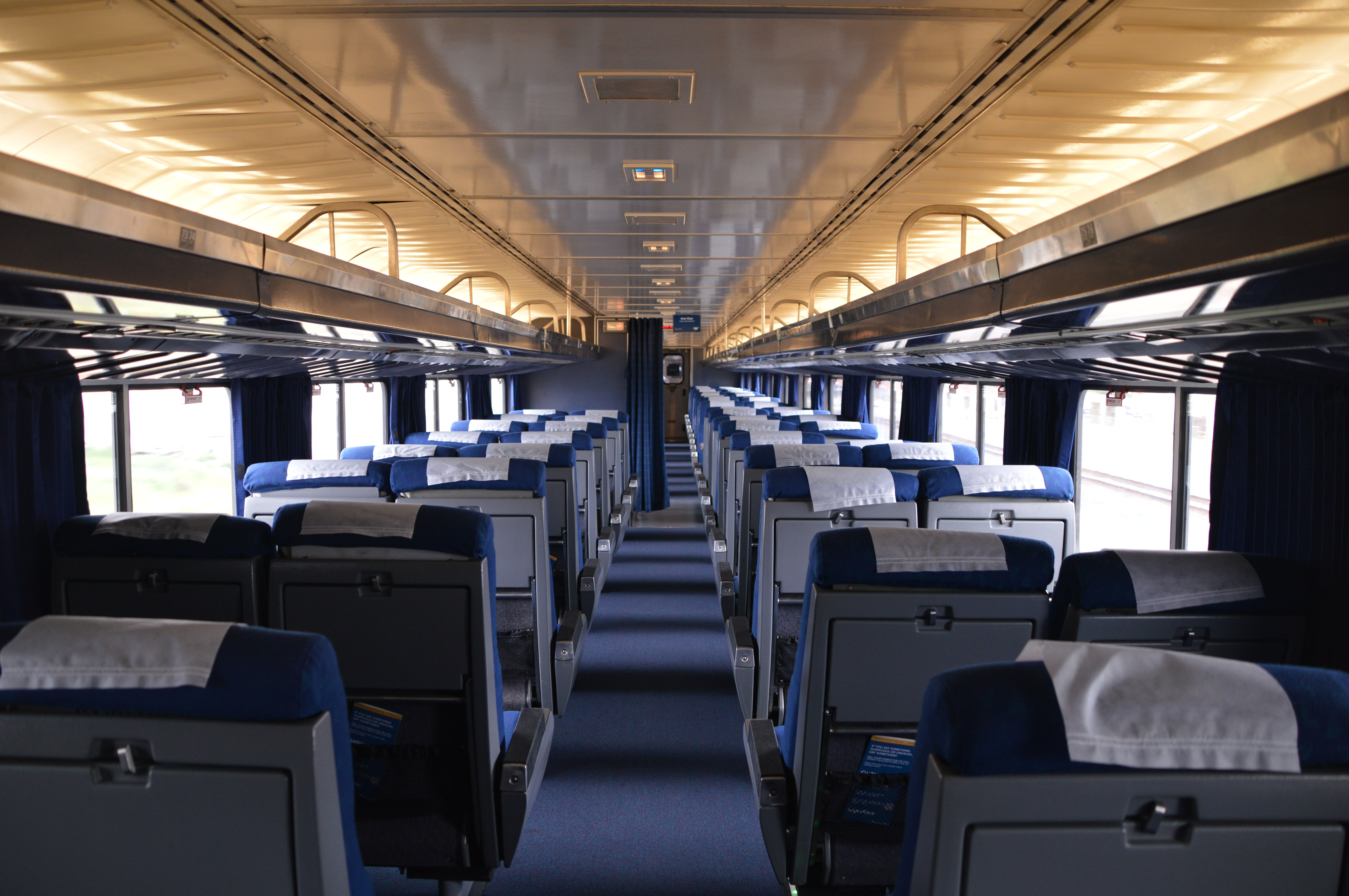 This is the upper level of Superliner #34960. En route to Los Angeles on Amtrak's Pacific Surfliner.